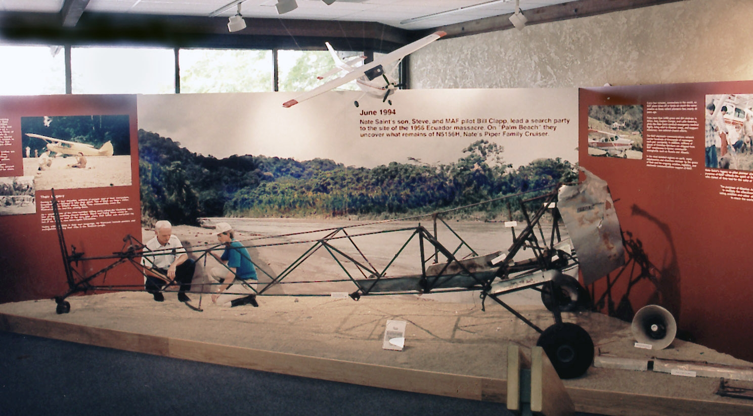 The reconstructed frame of Nate Saint's plane used in Operation Auca and other missionary work in Ecuador in the 1950s. Currently on display at the headquarters of the Mission Aviation Fellowship.